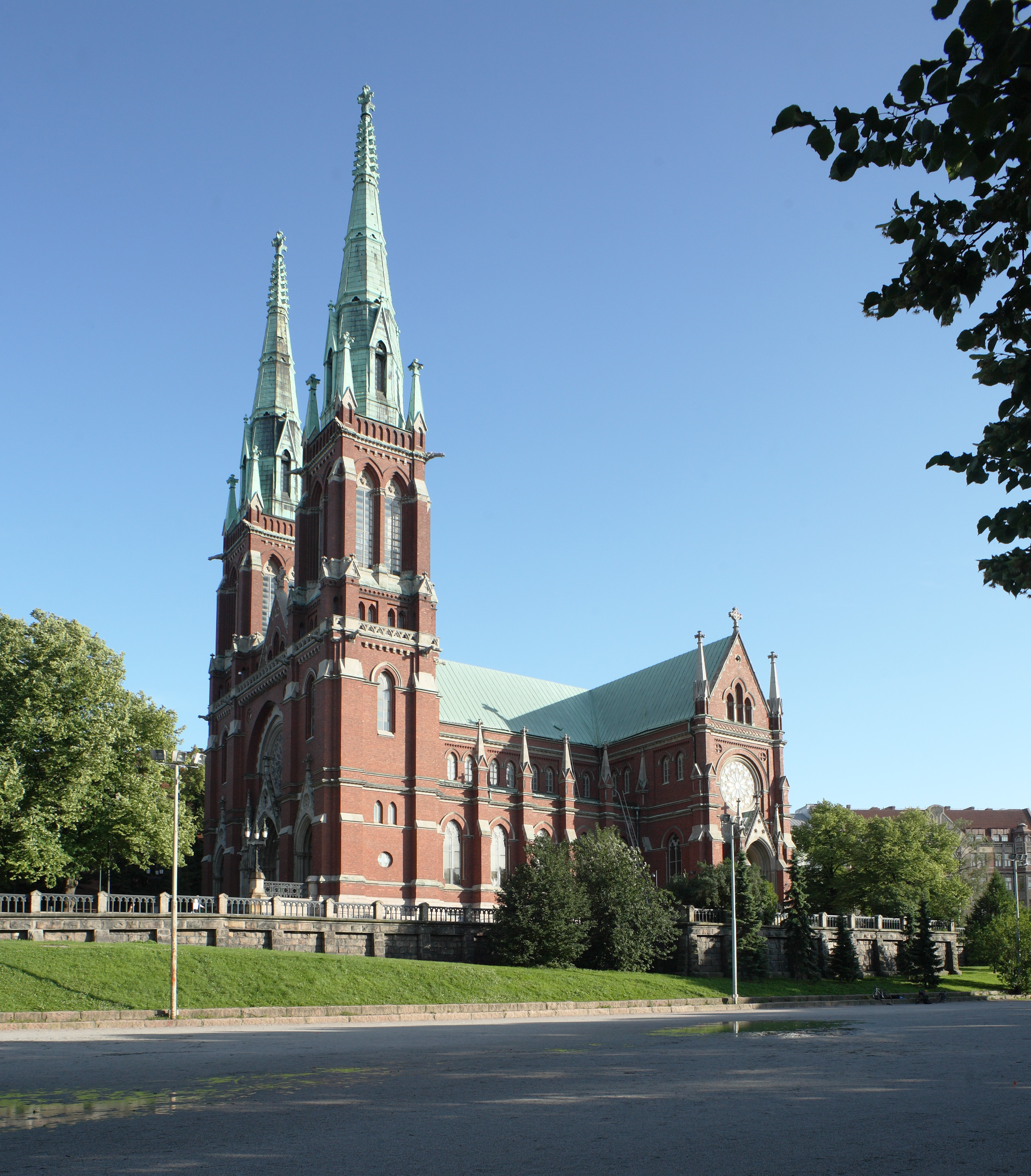 Johannes Church, Helsinki